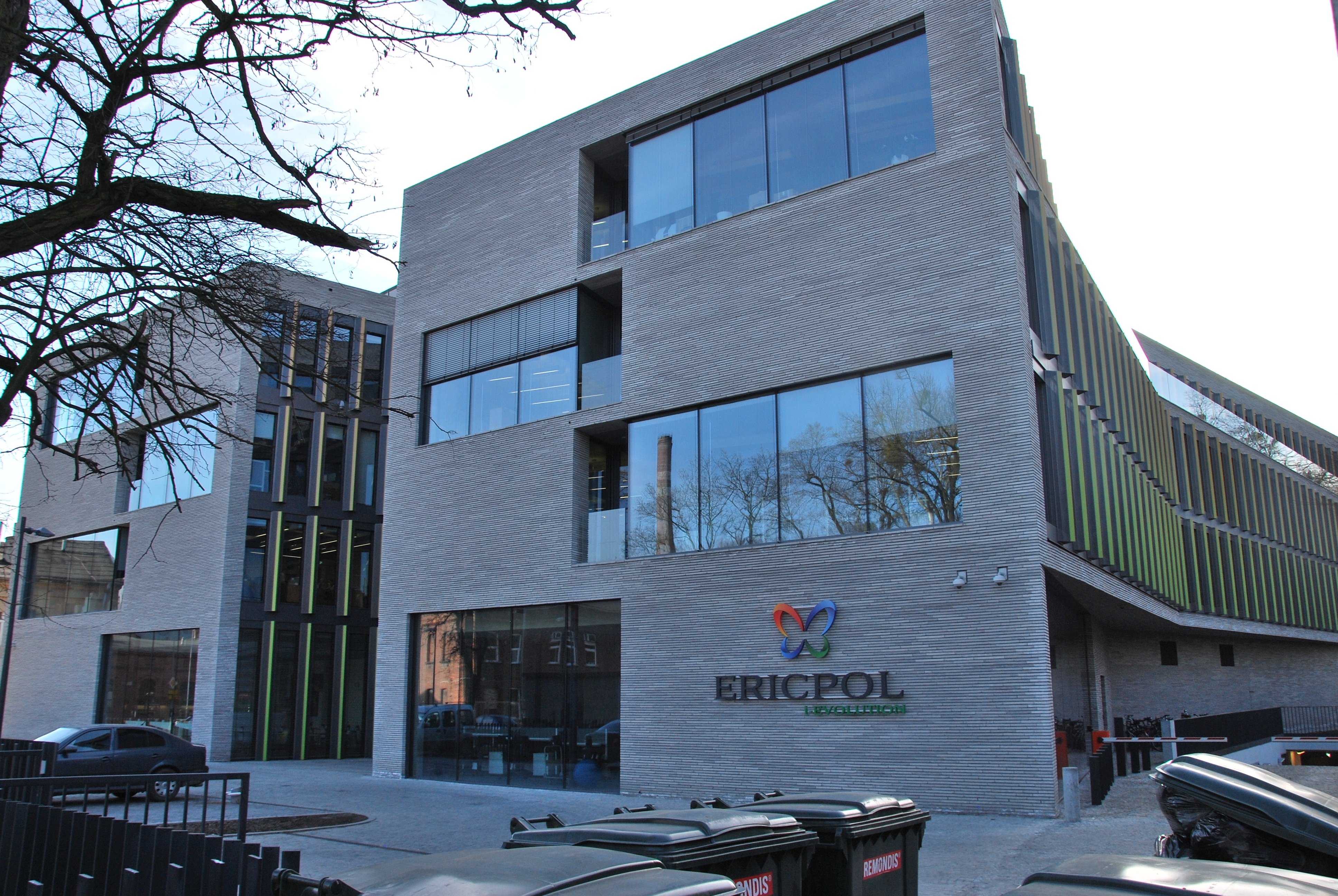 IT company Ericpol headquarter, Łódź 175 Sienkiewicza Street